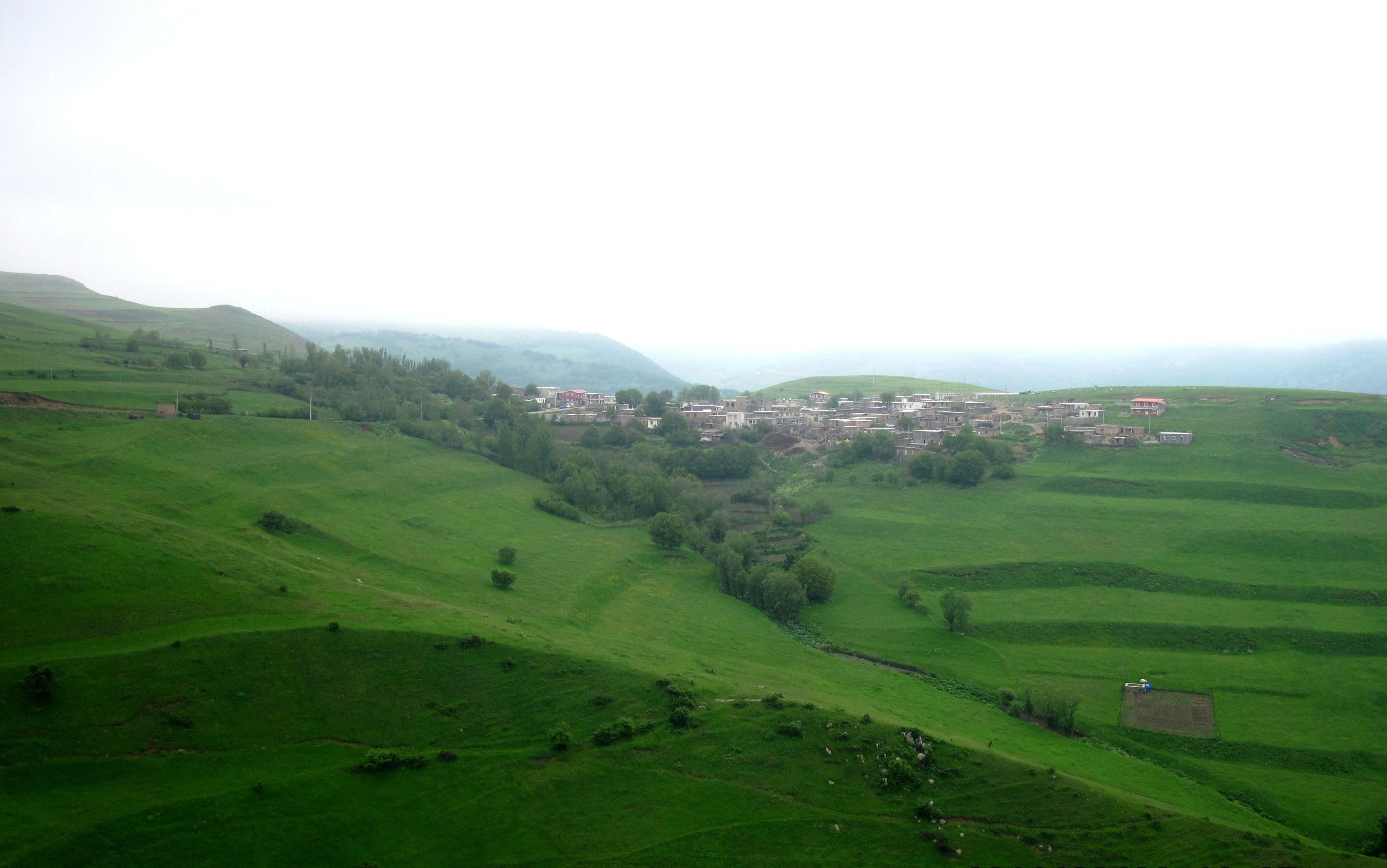 For Aqi wiki page.